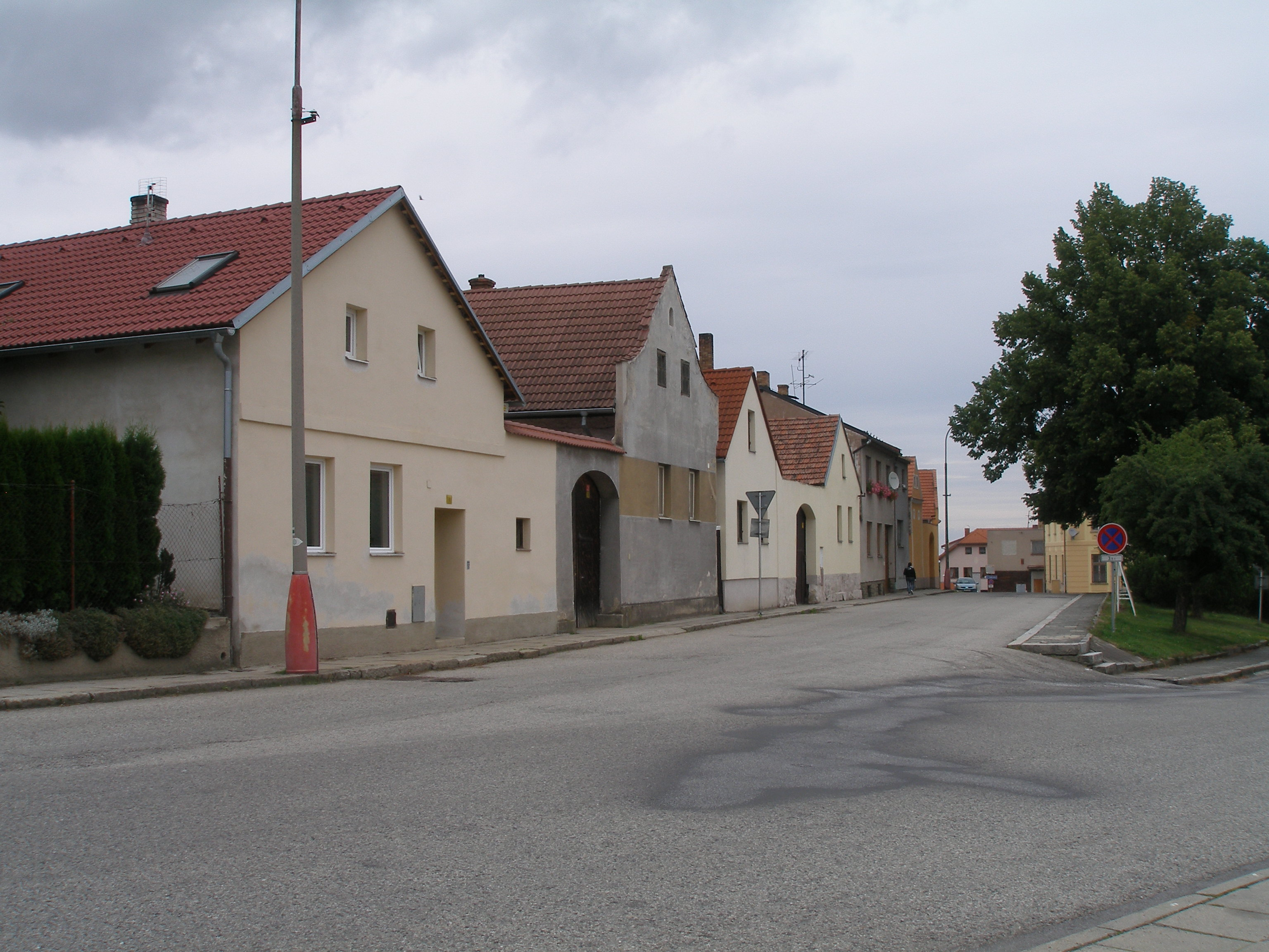 Besednice - the northern side of the square